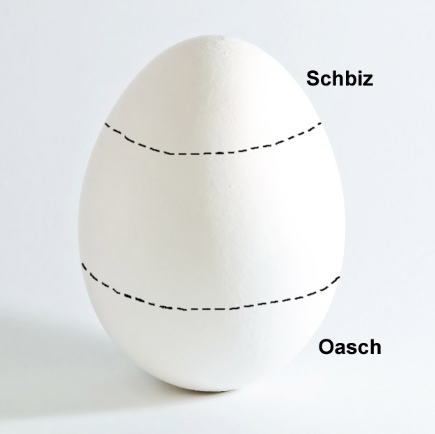 parts of easter eggs, that are relevant for the tradition of "Eierpecken" (egg tapping or egg crunching).